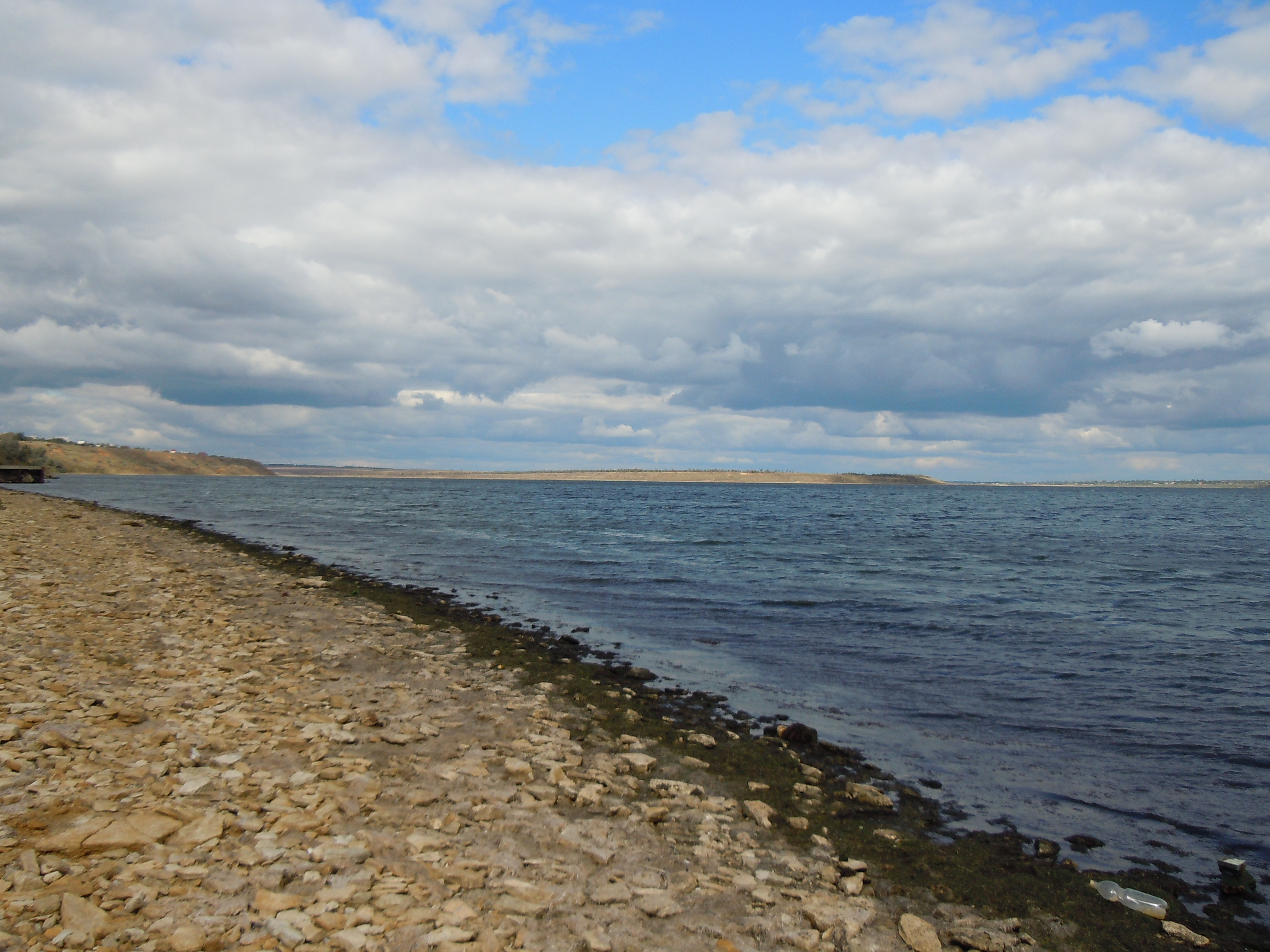 View to the Tylihul Estuary near the village of Koshary, Odessa Oblast, Ukraine